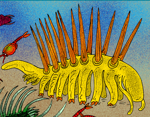 Reconstruction of the famous Cambrian organism, Hallucigenia sparsa, as an onychophoran (C) Stanton F. Fink